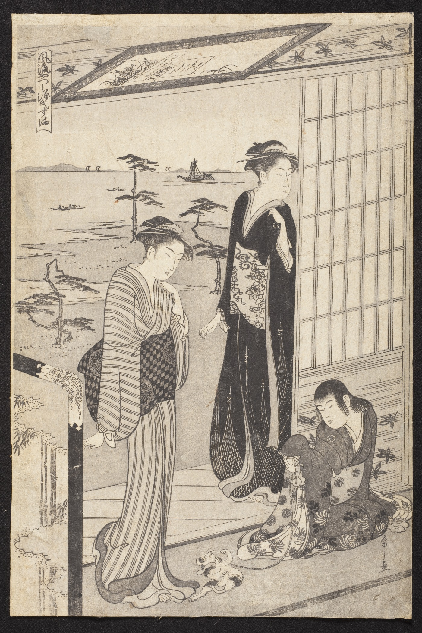 circa 1790 Series: From a triptych in the series Genji in Modern Dress (Furyu yatsushi Genji) Prints; woodcuts Color woodblock print, one sheet from a triptych Image: 14 7/8 x 10 in. (37.78 x 25.4 cm); Sheet: 15 1/4 x 10 1/8 in. (38.74 x 25.72 cm) The Joan Elizabeth Tanney Bequest (M.2006.136.75) Japanese Art